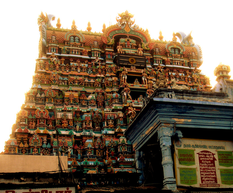 The belfry (gopuram) of Nellaiappar temple. It is colourfully painted annually during the Hindu celebrations.